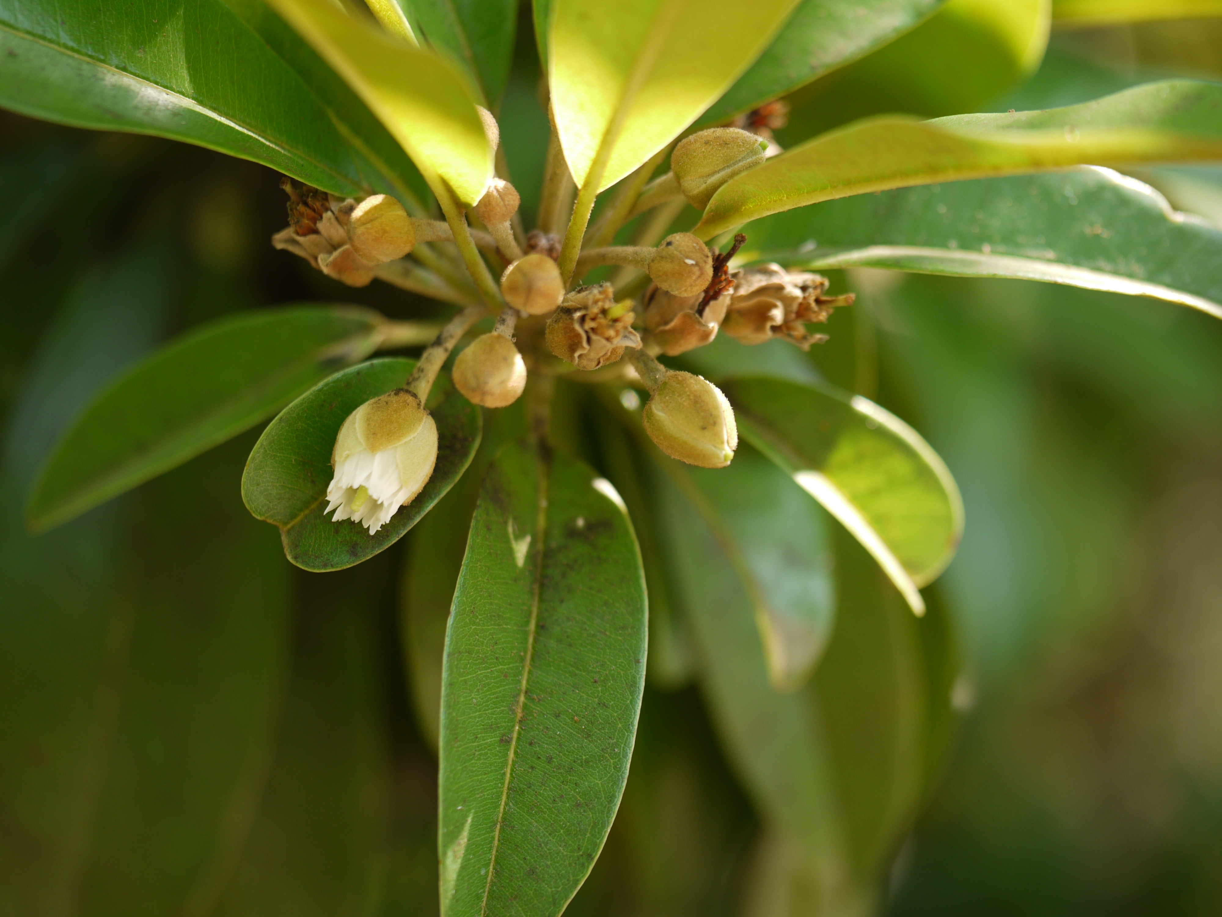 Sapotaceae (sapota family) » Manilkara zapota man-il-KAR-uh -- Latinized form of the S. American vernacular name for Malabar zuh-POH-tuh -- from the S. American vernacular name sapota commonly known as: beef apple, chicle, chico sapote, chicozapote, chiku, naseberry, noseberry, sapodilla, sapodilla plum • Bengali: সপেটা sapeta • Hindi: चिकू chikoo, sapota • Konkani: चिक्कू chikku • Marathi: चिकू chiku, चिक्कू chikku • Tamil: cappotta, சீமையிலுப்பை cimaiyiluppai • Telugu: sapota, సీమ ఇప్పచెట్టు sima ippacettu Native of: tropical America References: Top Tropicals • Dave's Garden • EcoPort • M.M.N.P.D.